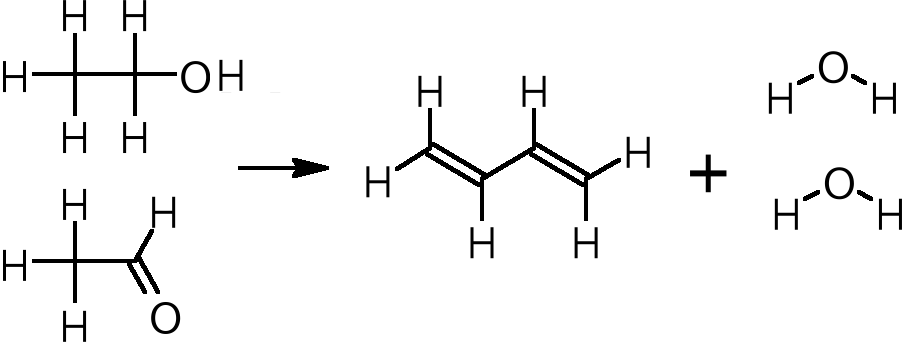 A reaction from ethanol to butadiene. Made with ChemSketch and the GIMP.